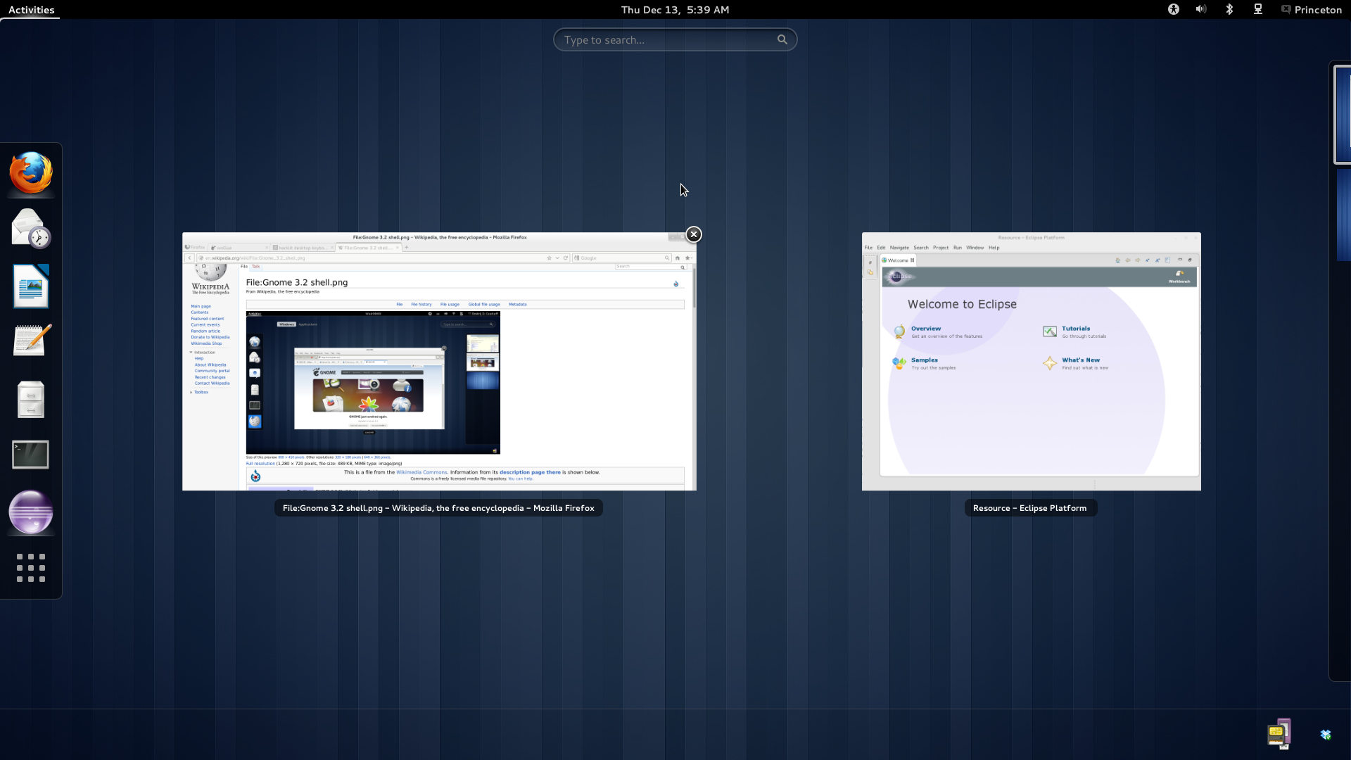 Shows Overview mode ("Activities") in GNOME 3.6.